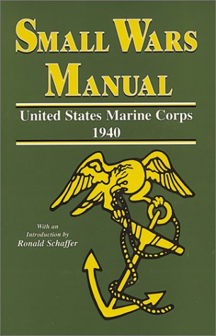 Cover of the Small Wars Manual, published by the United States Marine Corps. and